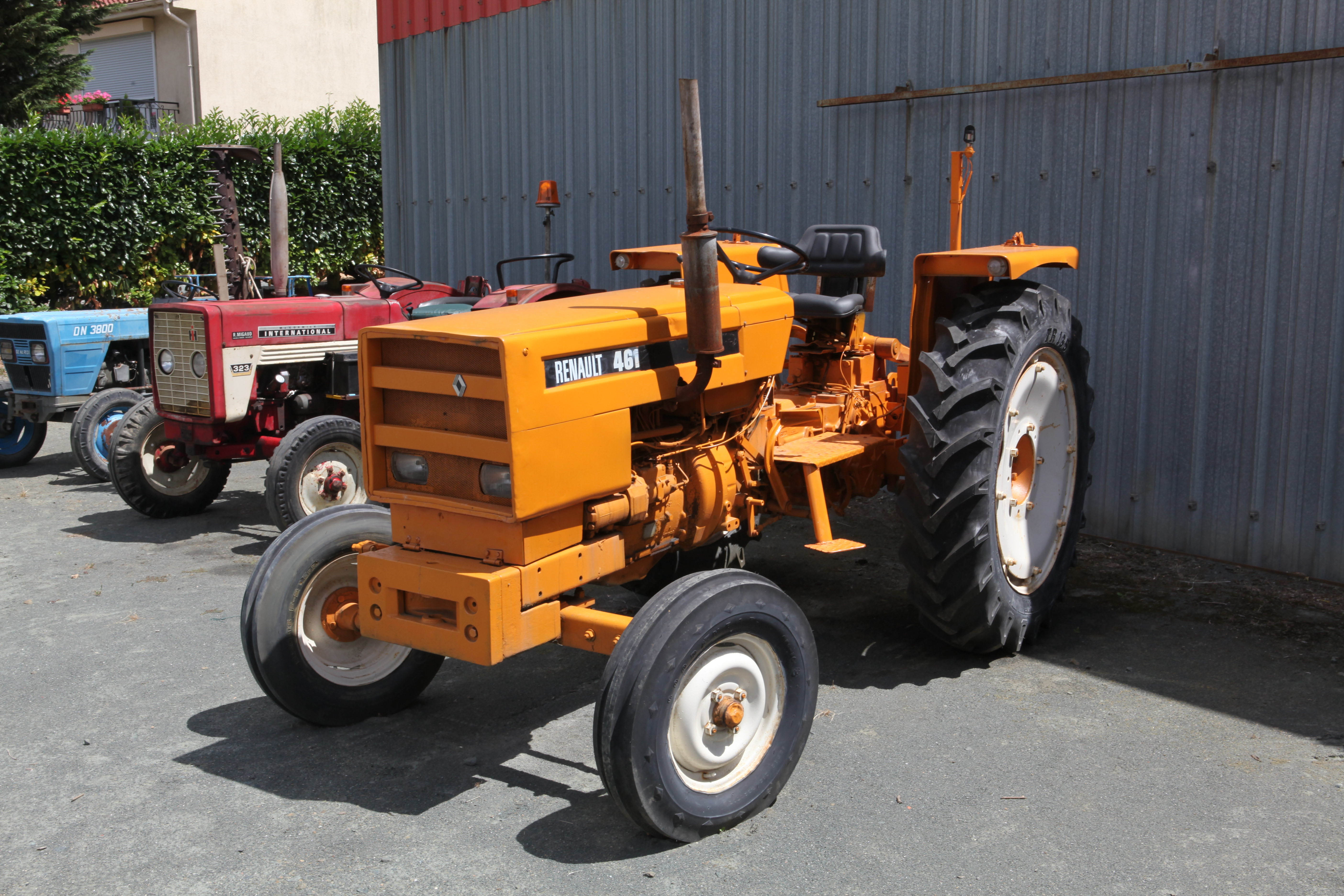 Renault 461 tractor, produced 1972 to 1980, IHC McCormick International 323 tractor behind